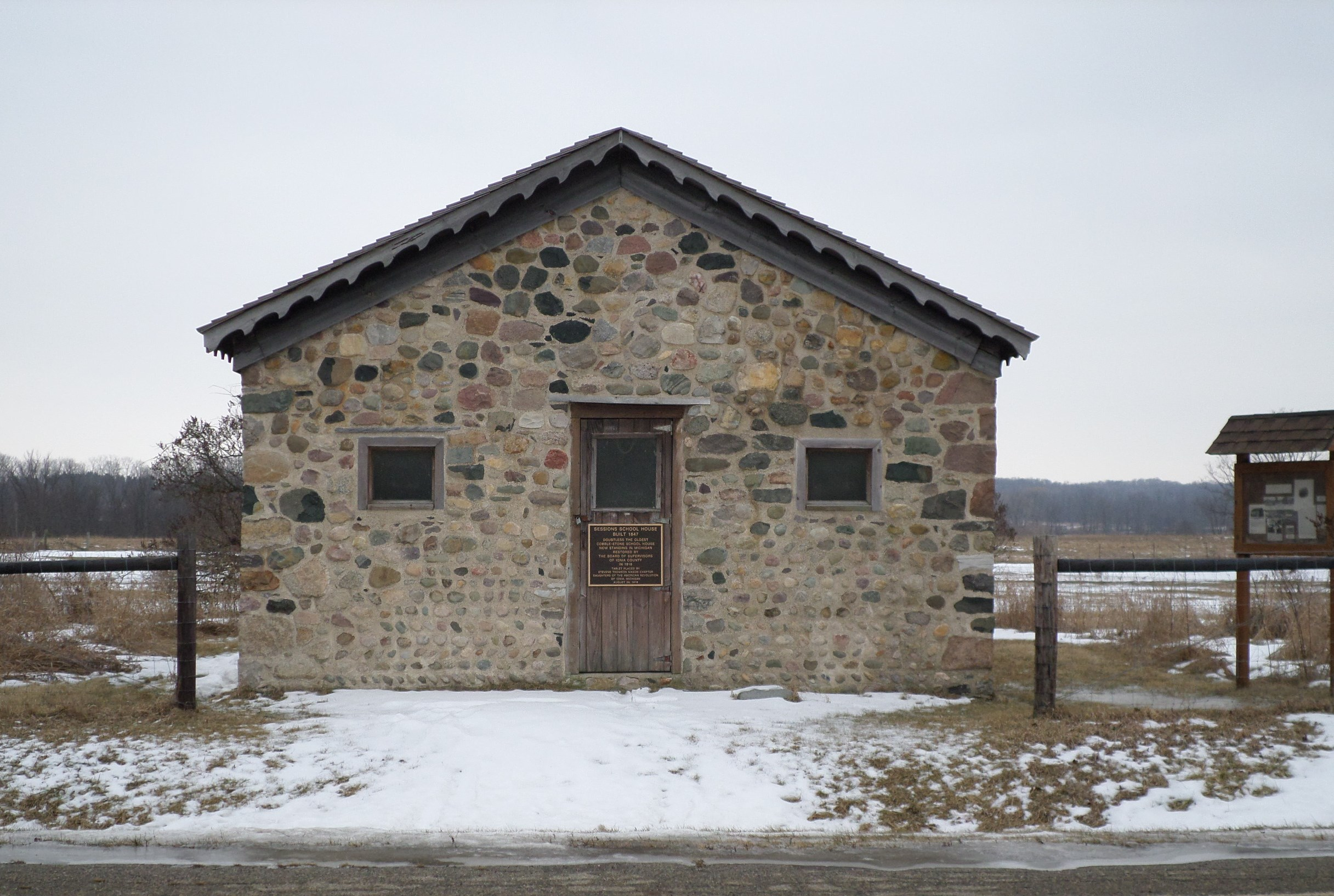 The Sessions Schoolhouse, located in the Ionia State Recreation Area near Ionia, MI. The building is listed on the National Register of Historic Places and is a Michigan State Historic Site.